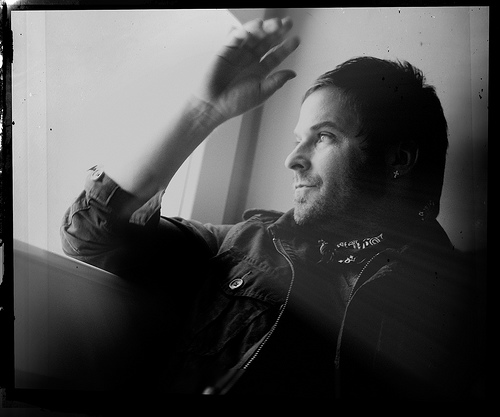 Singer Kevin Max by a window, taken for publicity purposes